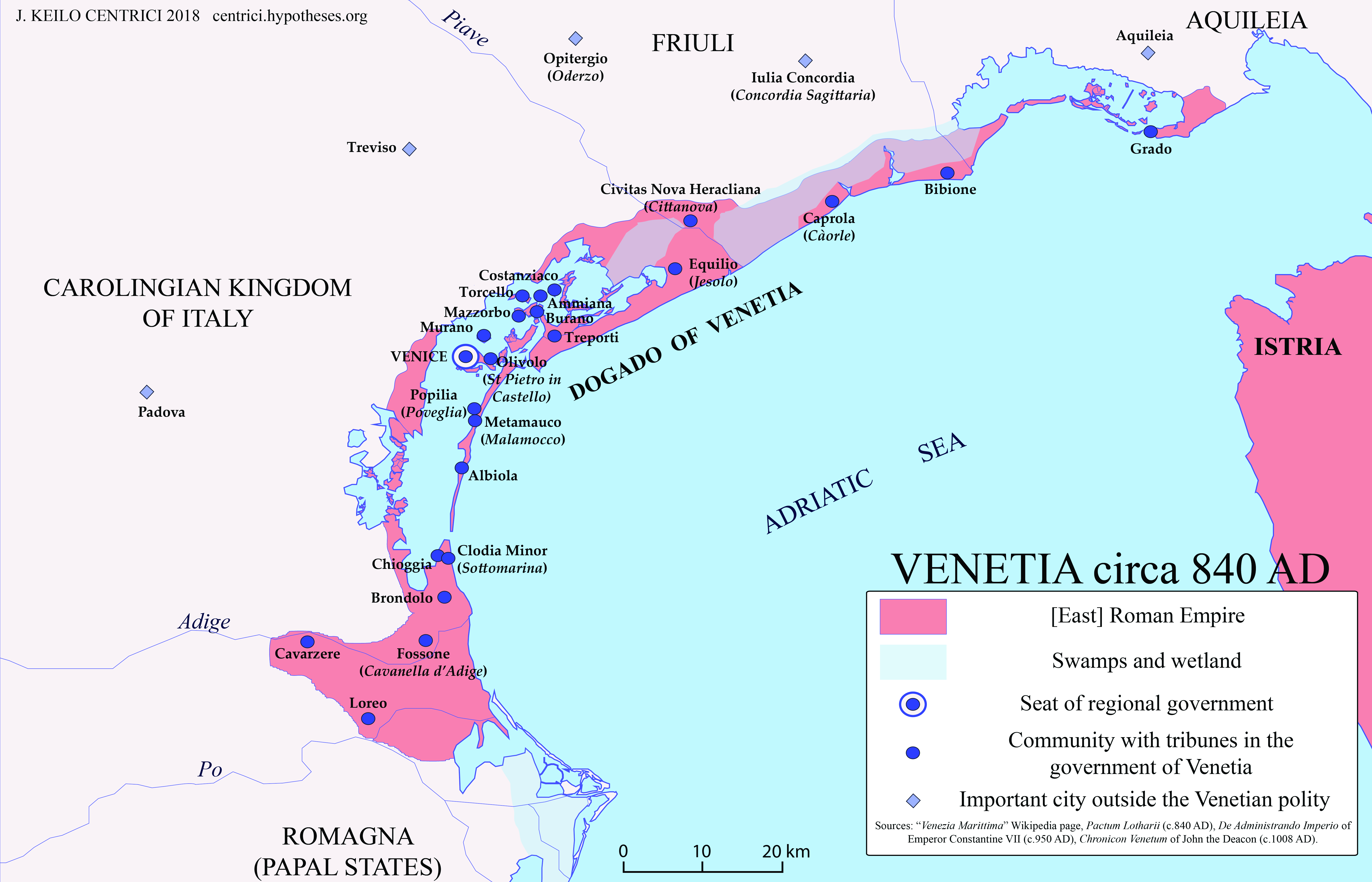 The political situation in Venetia, around the year 840 AD.